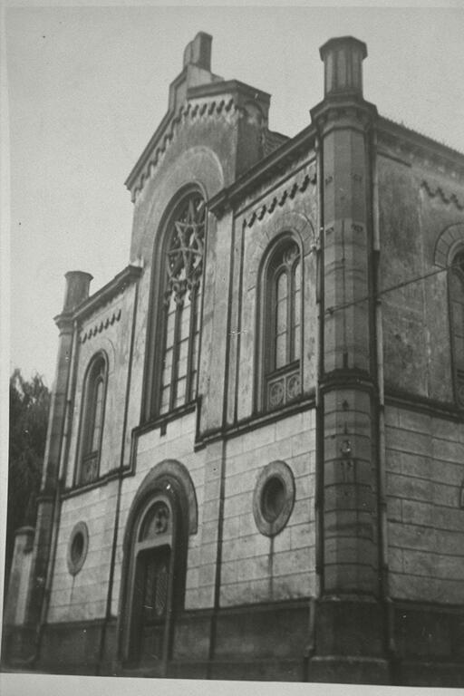 Description: The Mellrichstadt synagogue was consecrated on the 16th or 17th of September 1881, was destroyed on the 30 of September 1938, and pulled down in 1939-40 Creator/Photographer: Unknown Medium: Black and white photographic print Date: November 1938 Repository:Leo Baeck Institute Parent Collection: Mellrichstadt; Jewish Community Collection Call Number: AR 5072 Rights Information: No known copyright restrictions; may be subject to third party rights. For more copyright information, click here. Find more information about this image and others at CJH Archives and Library Catalog.